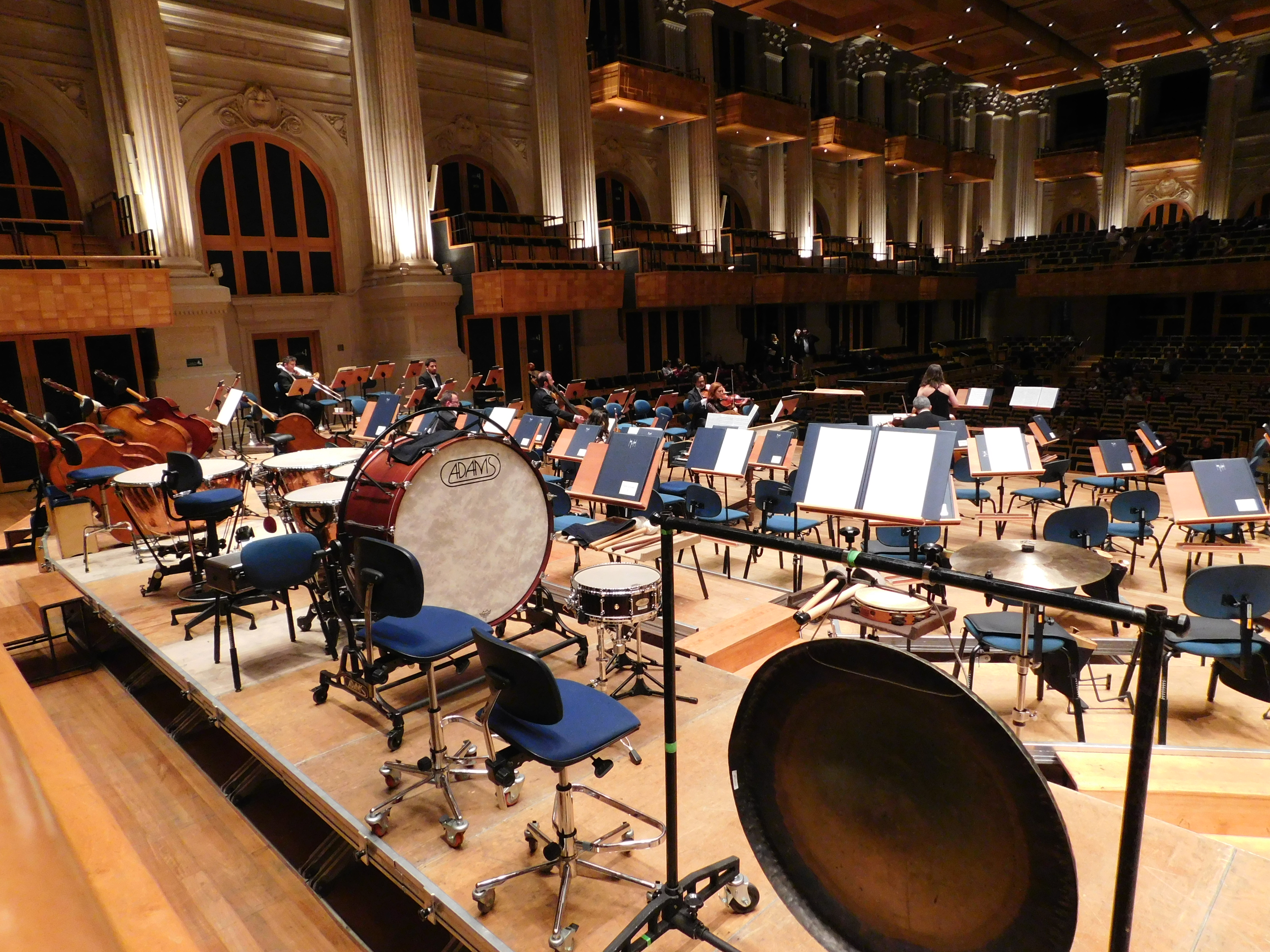 The Júlio Prestes Cultural Center, which is located in the Júlio Prestes Train Station in the old north central section of the city of São Paulo, Brazil, was inaugurated on July 9, 1999. The building has been totally restored and renovated by the São Paulo State Government, as part of the downtown revitalization in that city. It houses the Sala São Paulo, which has a capacity of 1498 seats and is the home of the São Paulo State Symphonic Orchestra (OSESP). It is a venue for symphonic and chamber presentations and has been designed according to state of the art standards, comparable to the Boston Symphony Hall, Musikverein in Vienna and the Concertgebouw in Amsterdam.